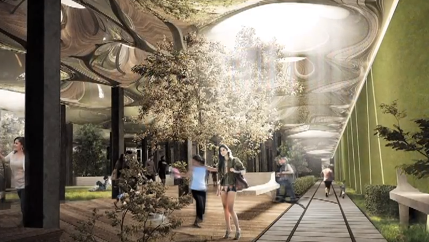 A rendering of the proposed Lowline park design, from the project's Kickstarter video.